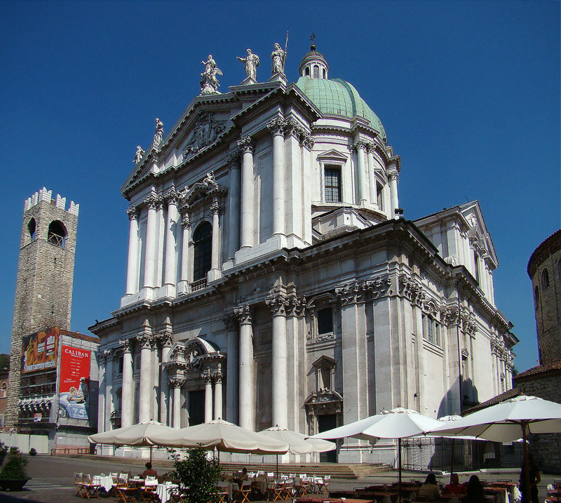 Duomo Nuovo, Brescia, Lombardy, Italy. On the left: the romanesque Broletto building with its tower, on Piazza Paolo VI.